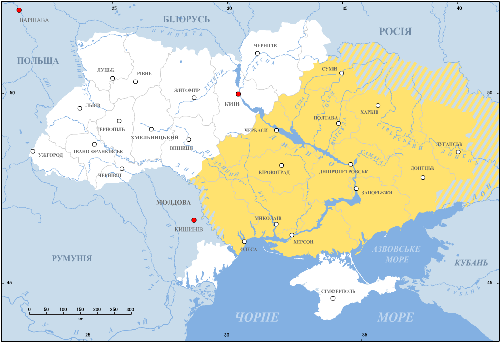 Wild Field